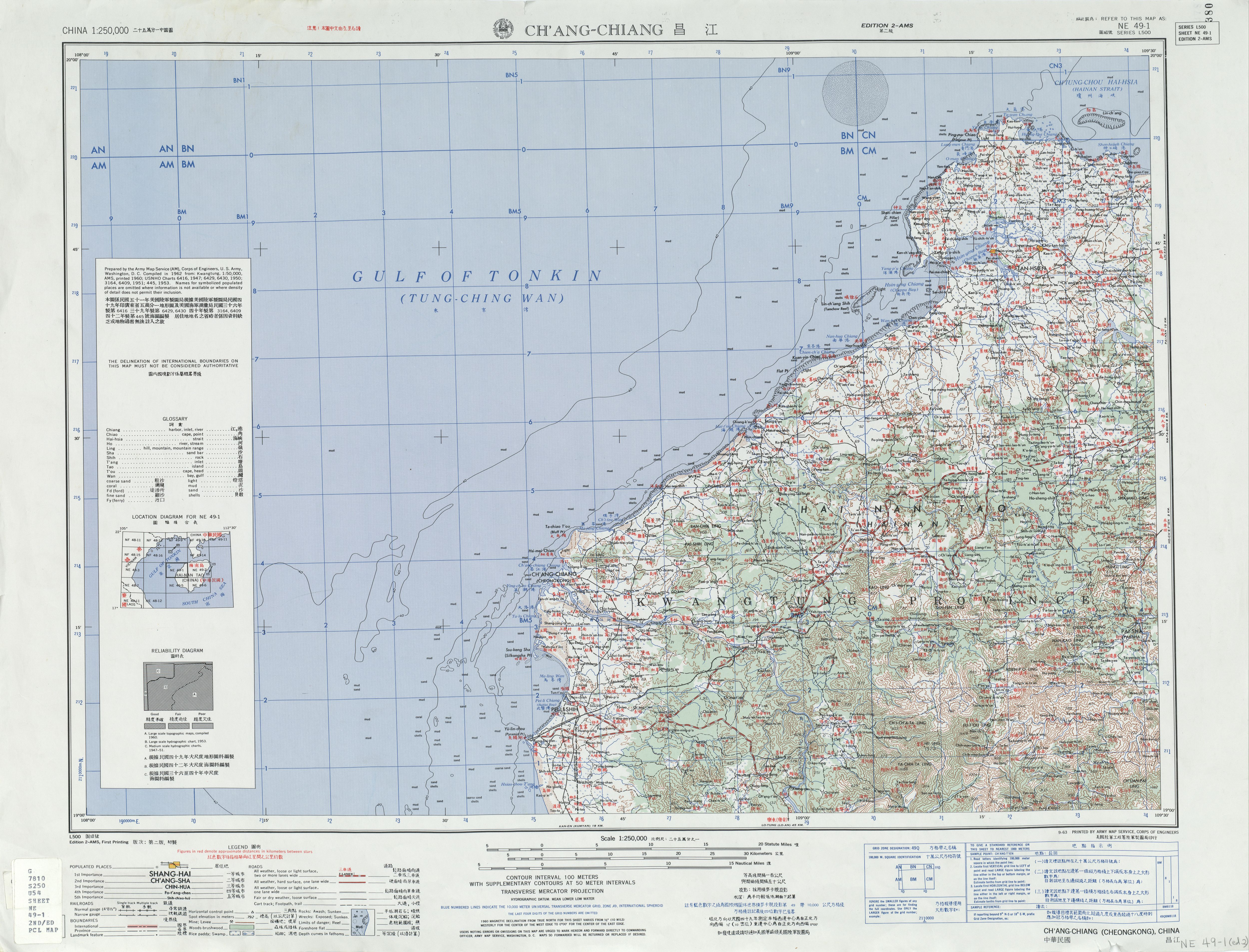 Map of Changjiang (Ch'ang-chiang, Cheongkong) area, Hainan from the China AMS Topographic Maps series